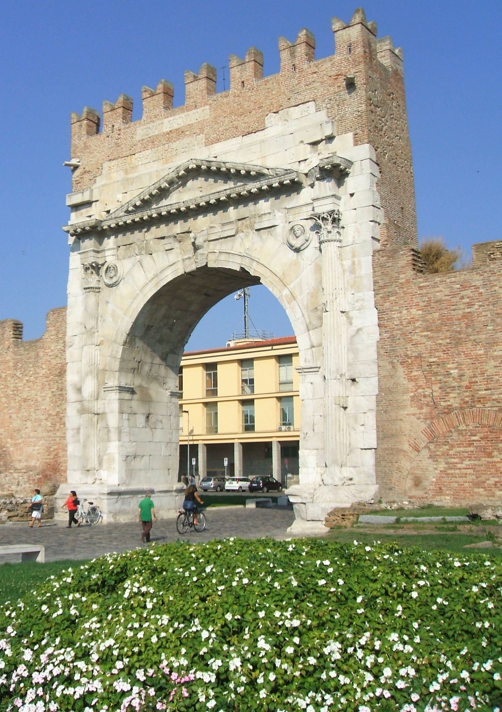 Augustus' Arch in Rimini